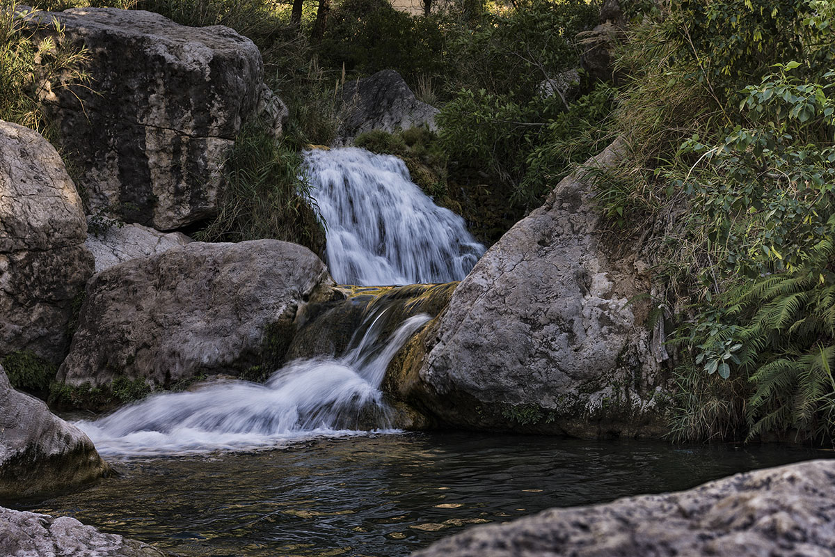 "Neela Wahn", Kalar Kahar ,Chakwal, Pakistan